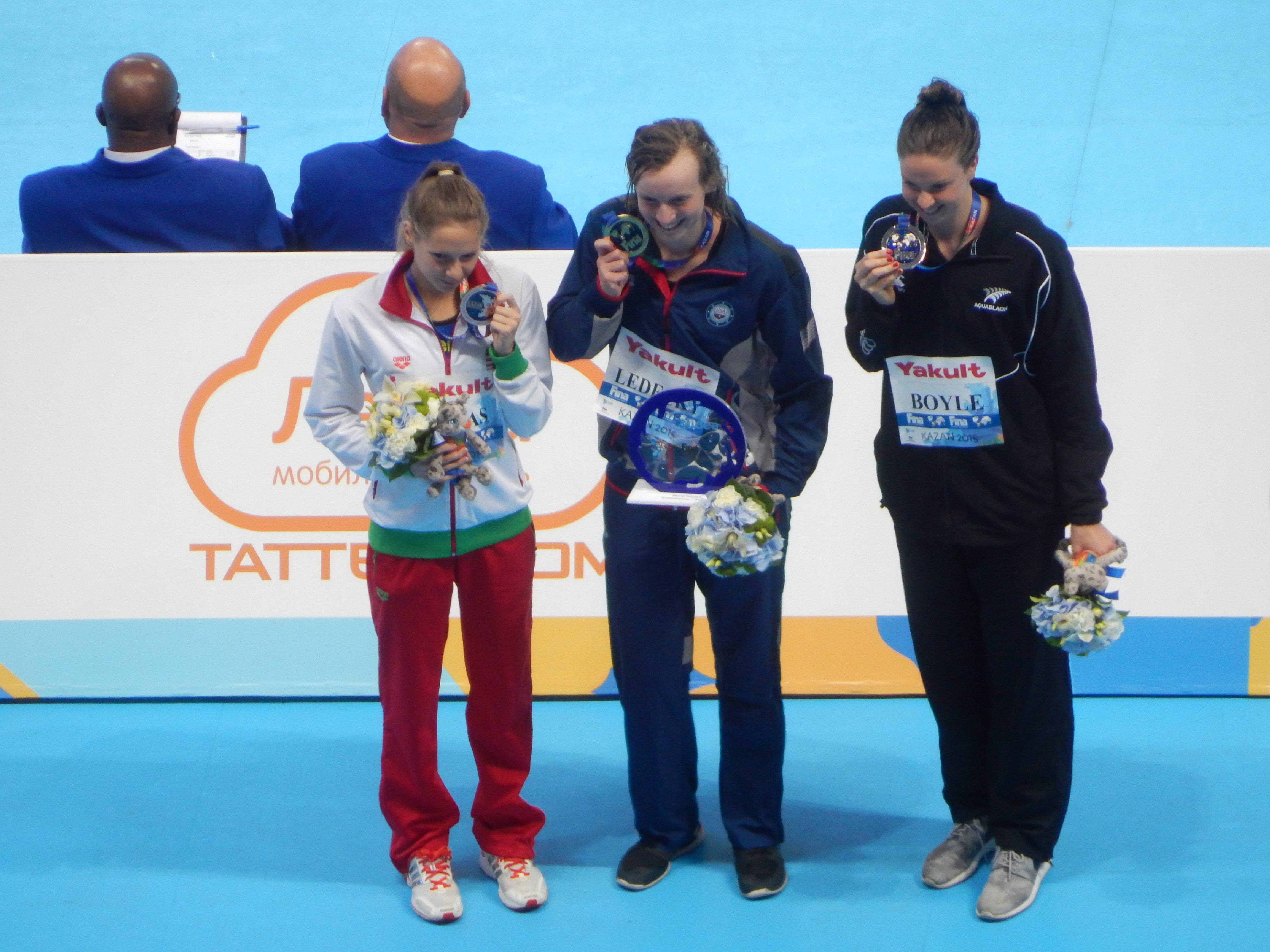 Medallists at the women's 1500 metres freestyle in Kazan 2015